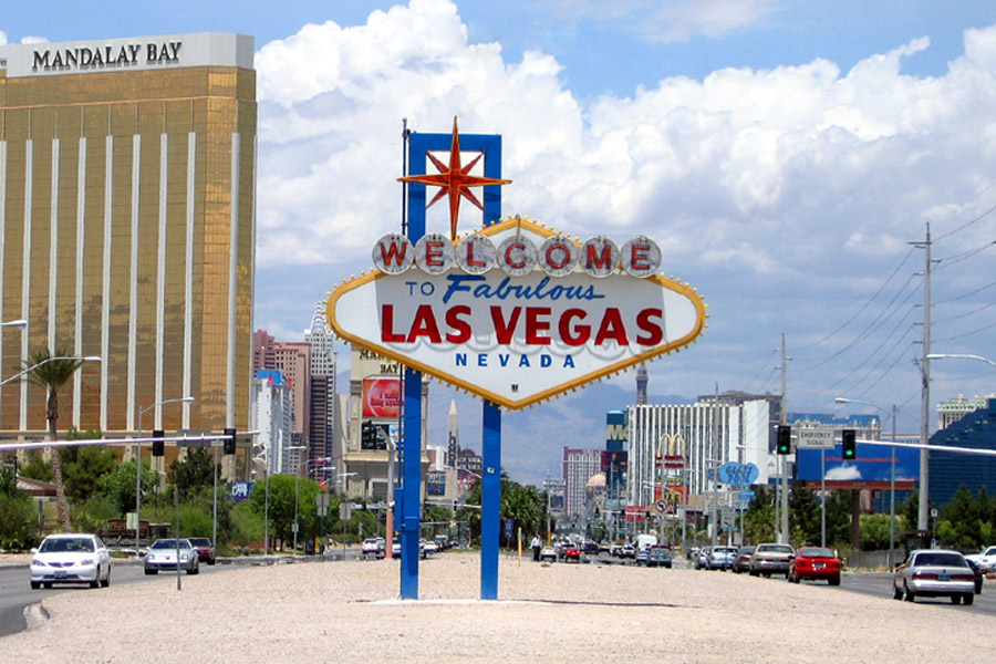 The Las Vegas Sign.